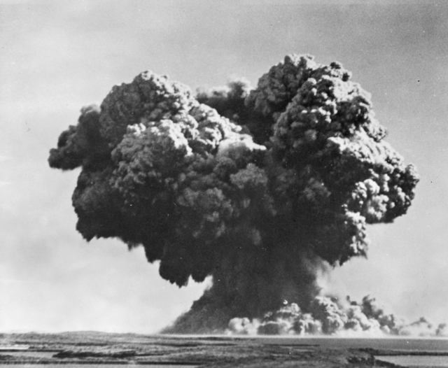 Monte Bello Islands, WA, 1952-10-03. Britain's first atomic weapon is detonated at 0800 hours. An early stage in the explosion after the initial orange flash had been enveloped by the great uprush of water. Immense clouds of smoke, steam and spray burst into the air.